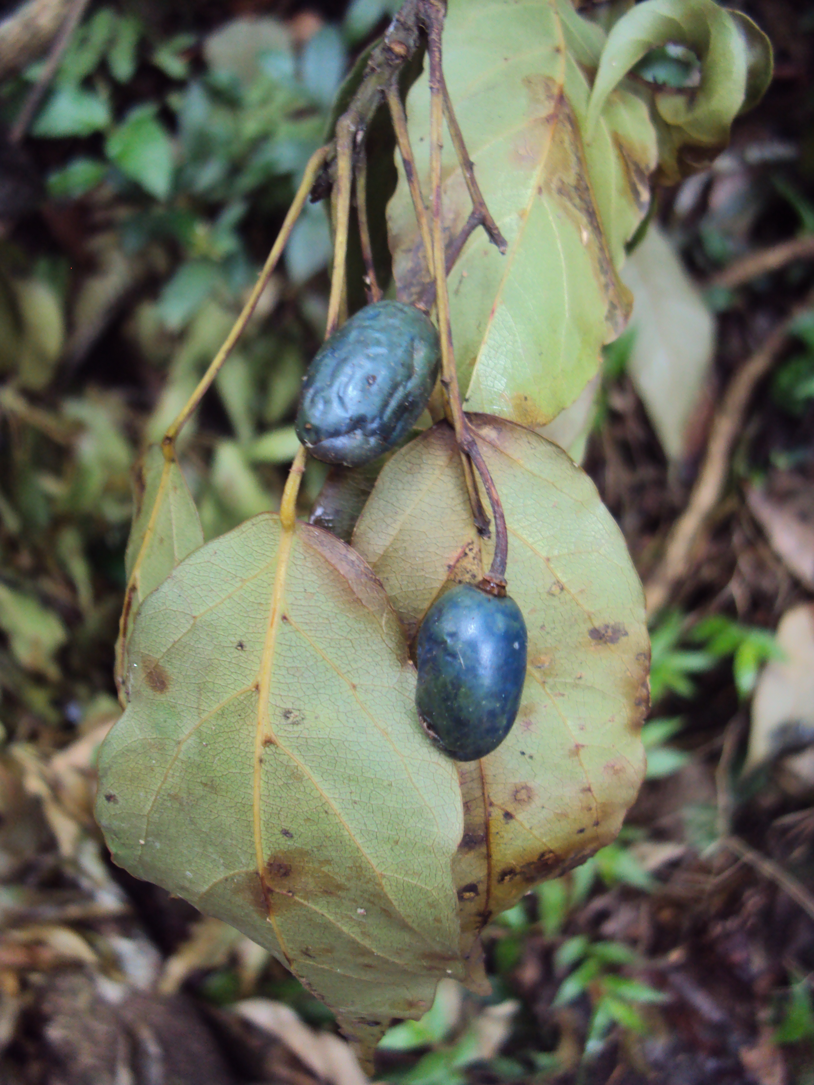 Elaeocarpus munronii